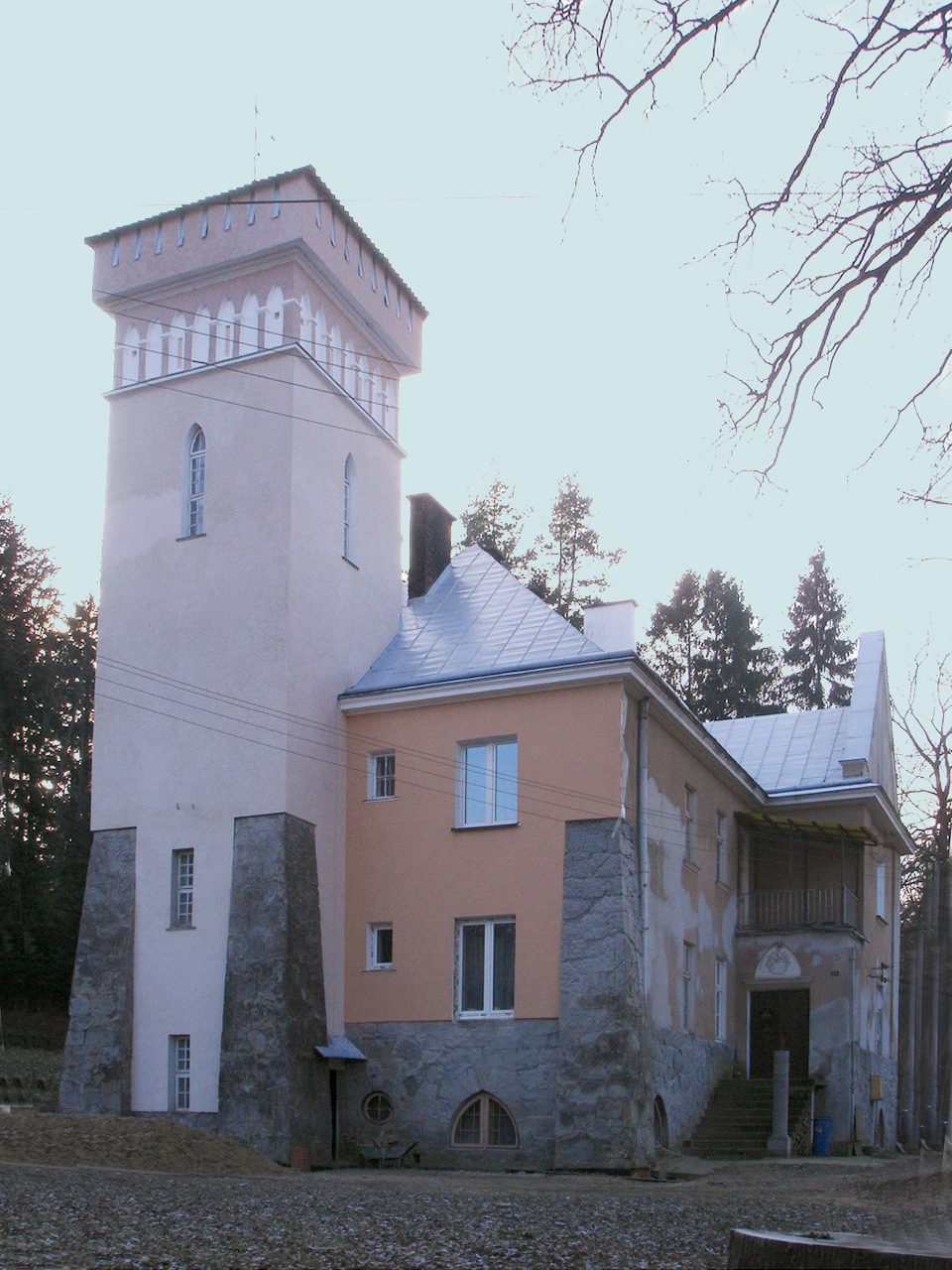 Baron Gubrynowicz manor house in Zagórz (Sanok County)